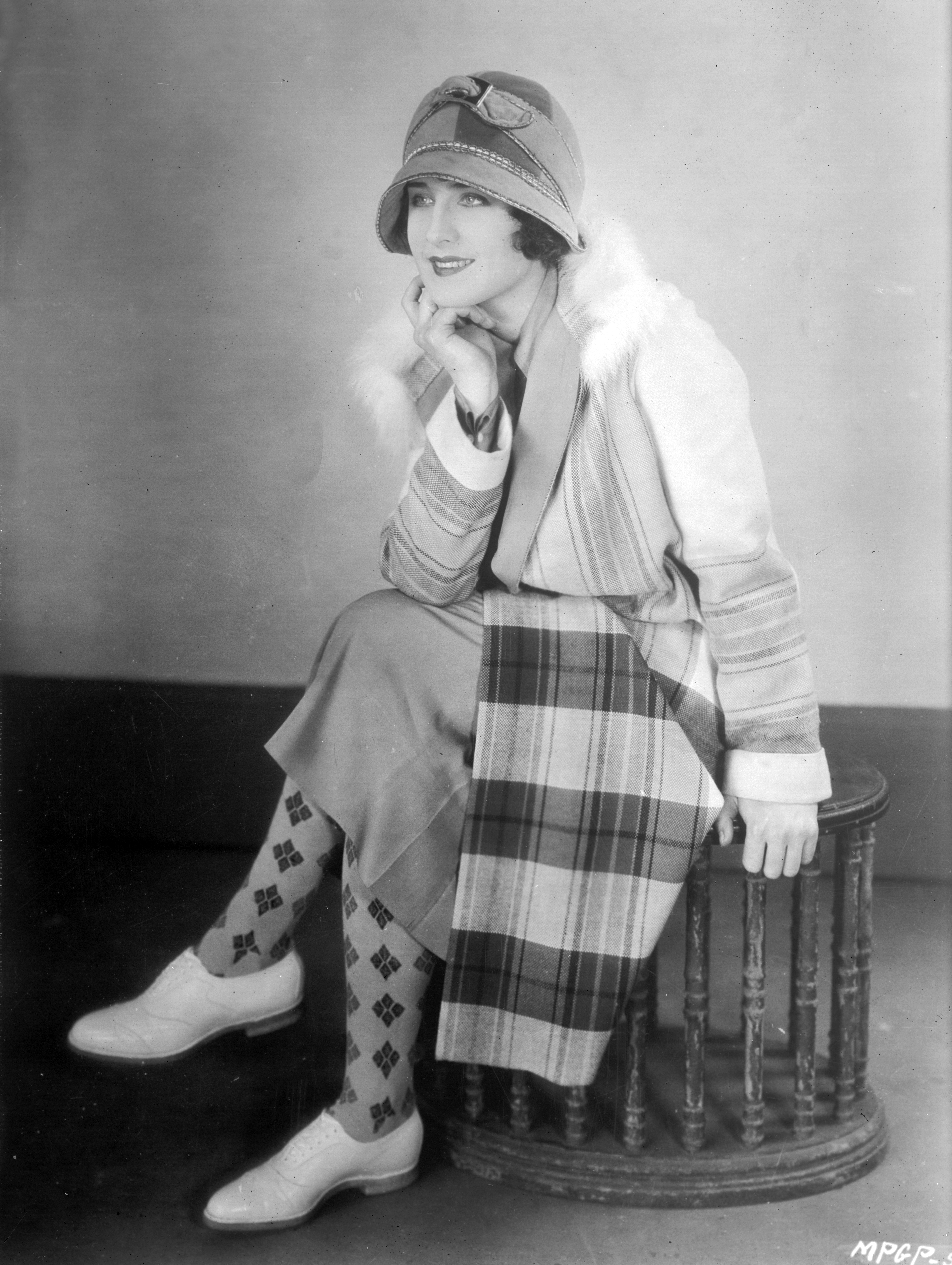 Photograph of Norma Shearer sitting